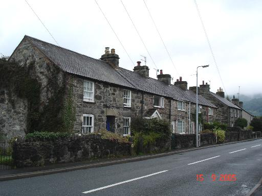 Tal y Bont. Stone cottages on the main B5106 through Tal y Bont